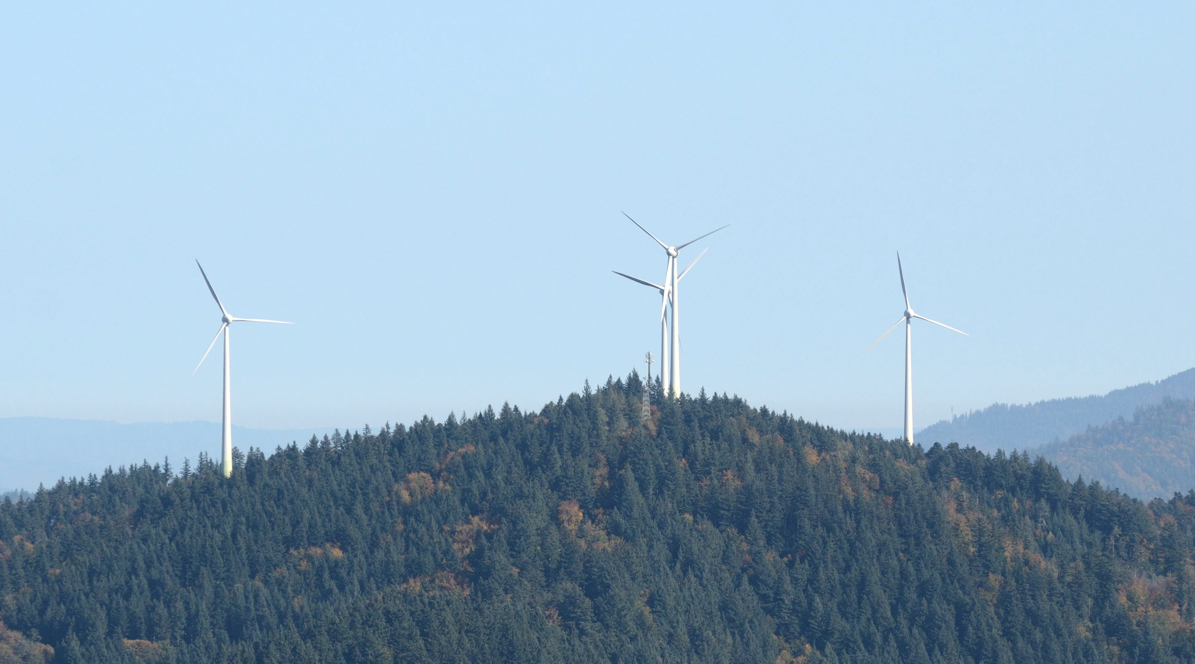 Aerial view at mountain summit Rosskopf